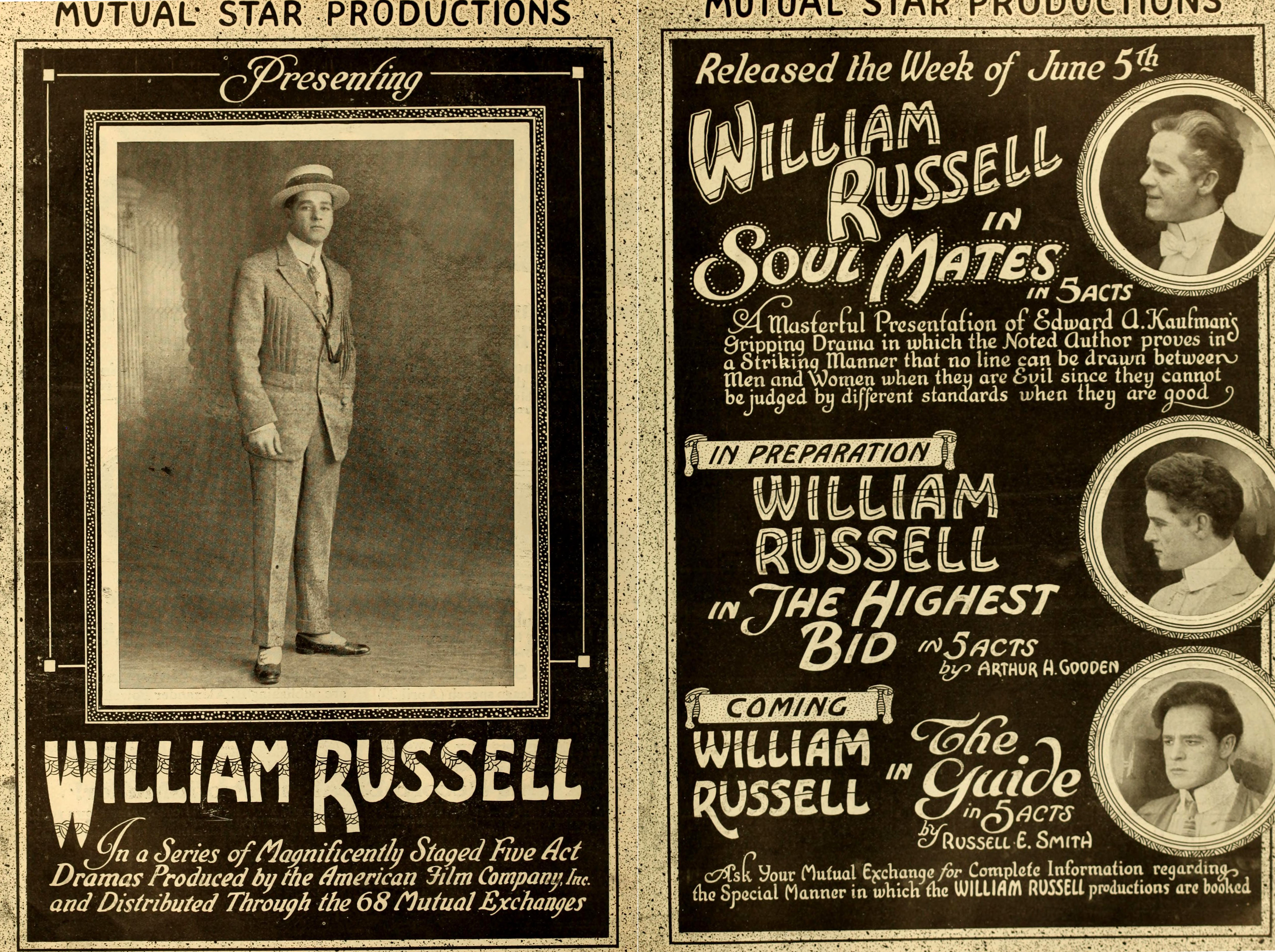 Advertisement in The Moving Picture World with William Russel